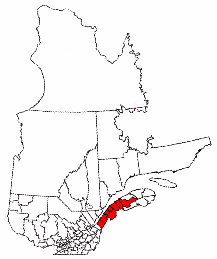 Created by Earl Andrew, who released it under the public domain